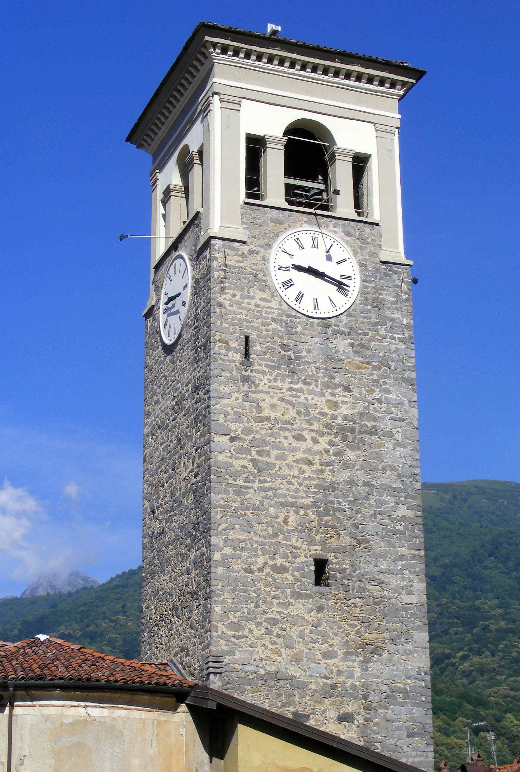 Sagliano Micca (BI, Italy): bells' tower